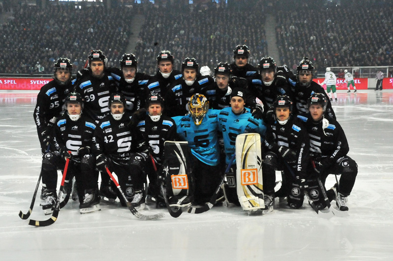 Sandvikens AIK during the 2013 Swedish men's bandy national championship final game against Hammarby IF at Friends Arena in Solna.